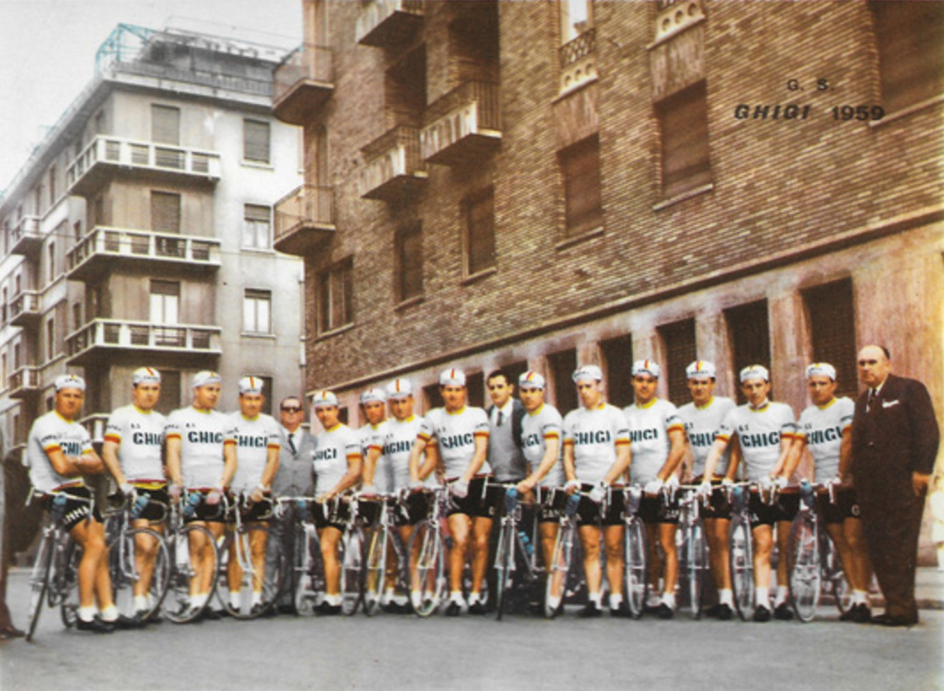 Ghigi cycling team 1959 postcard